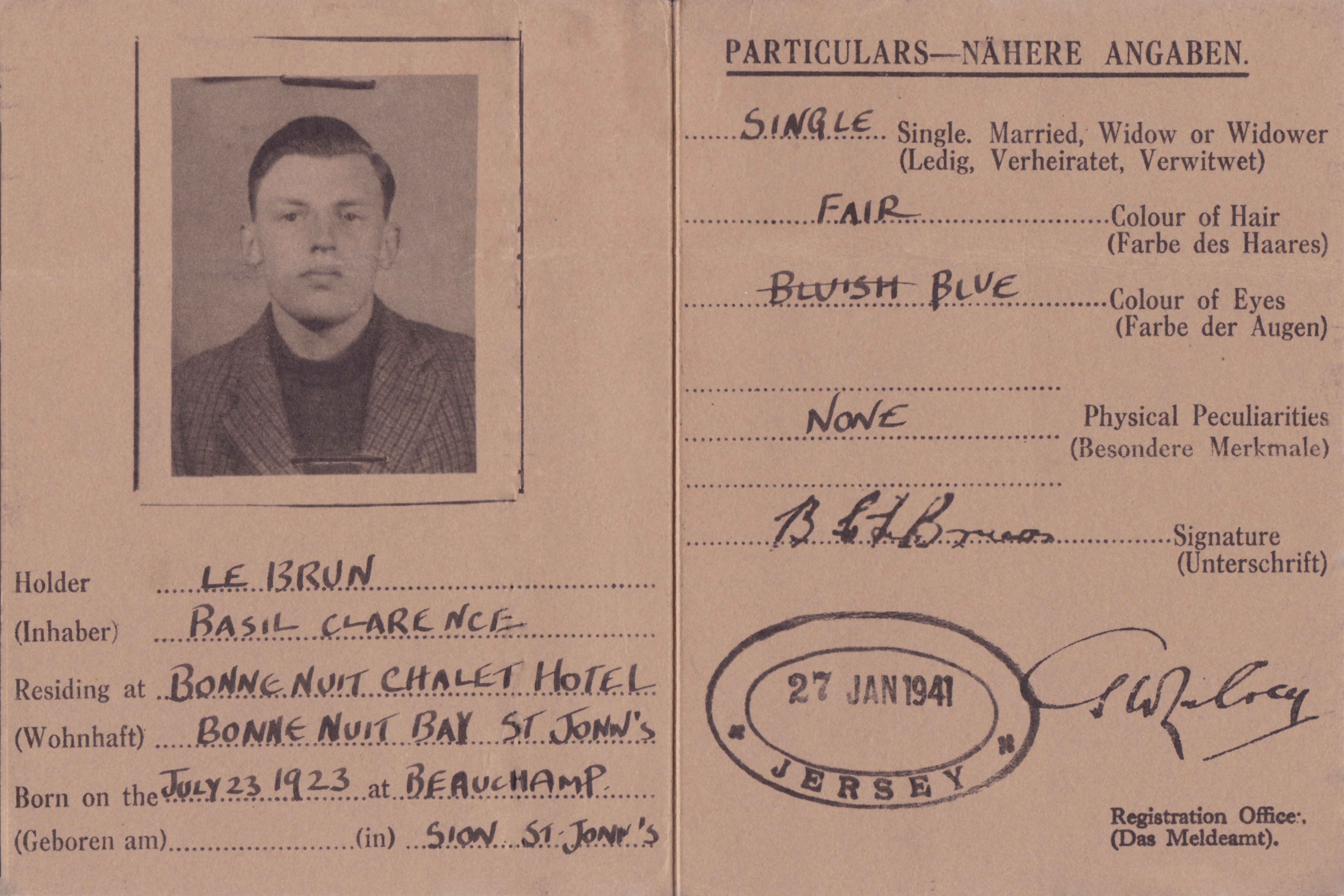 Interior of an identity card issued to Basil Le Brun of Saint John, Jersey during the German occupation of the Channel Islands, issued in January 1941.